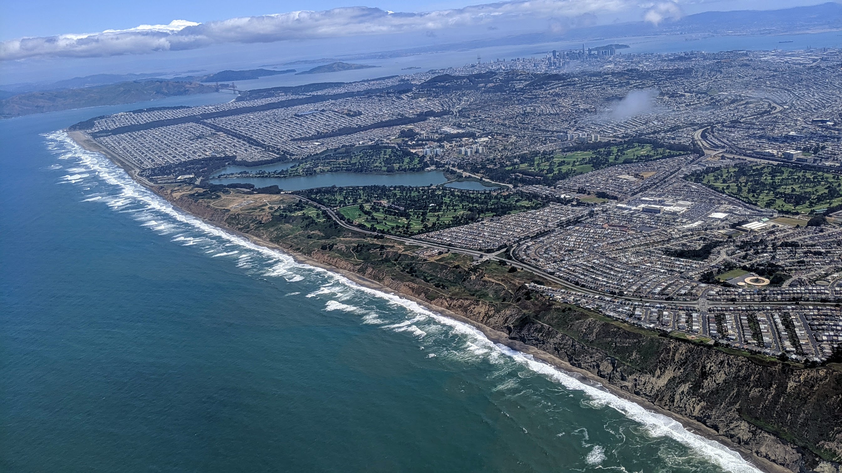 Aerial view from the southwest of Westlake (right foreground), a neighborhood of Daly City, California, with San Francisco's Lake Merced and more behind